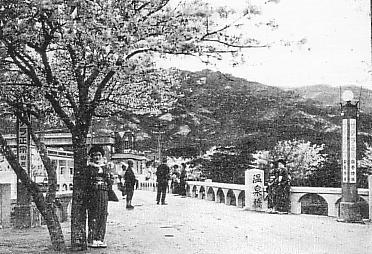 Torai(Dongnae) Onsen circa 1930